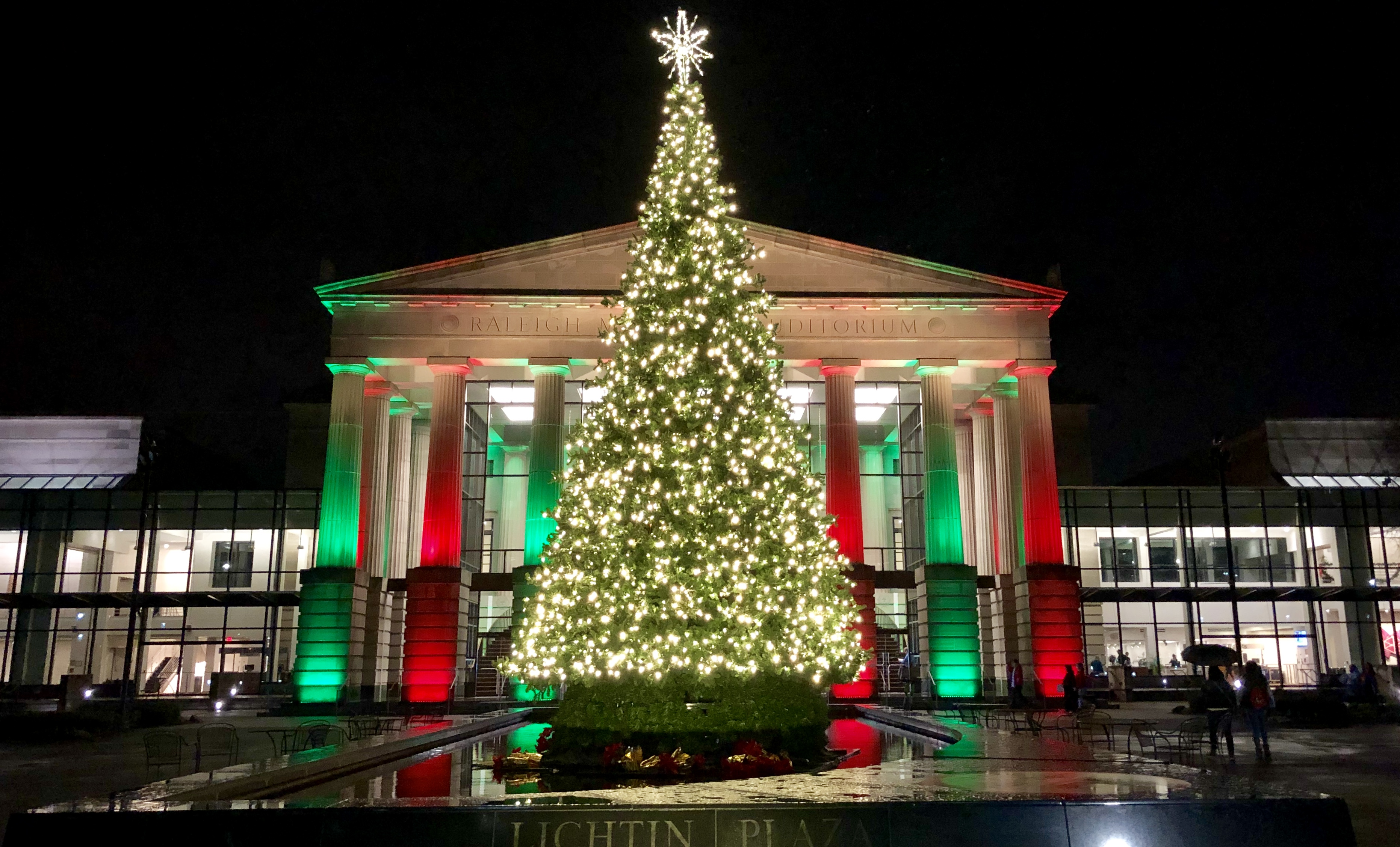 Raleigh Memorial Auditorium at the Duke Energy Center Christmas 2018